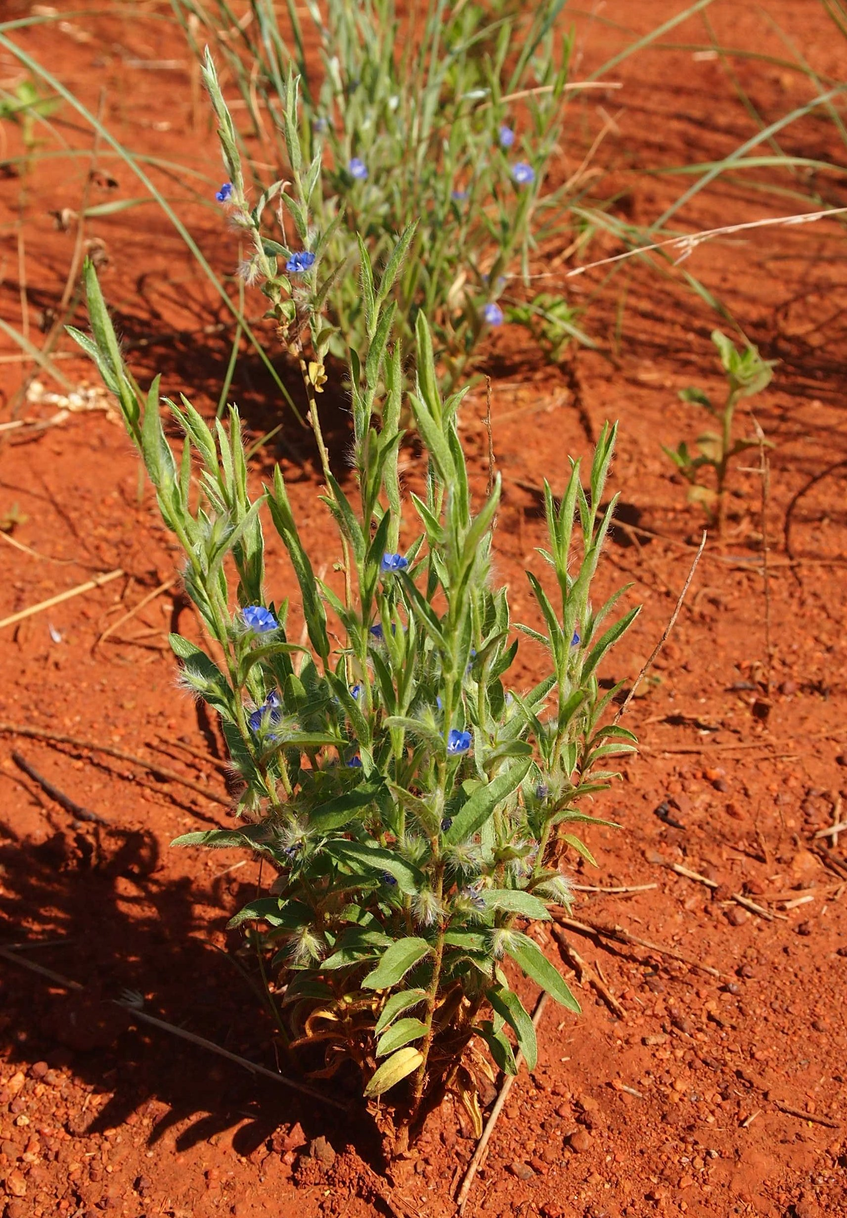 Evolvulus alsinoides habit